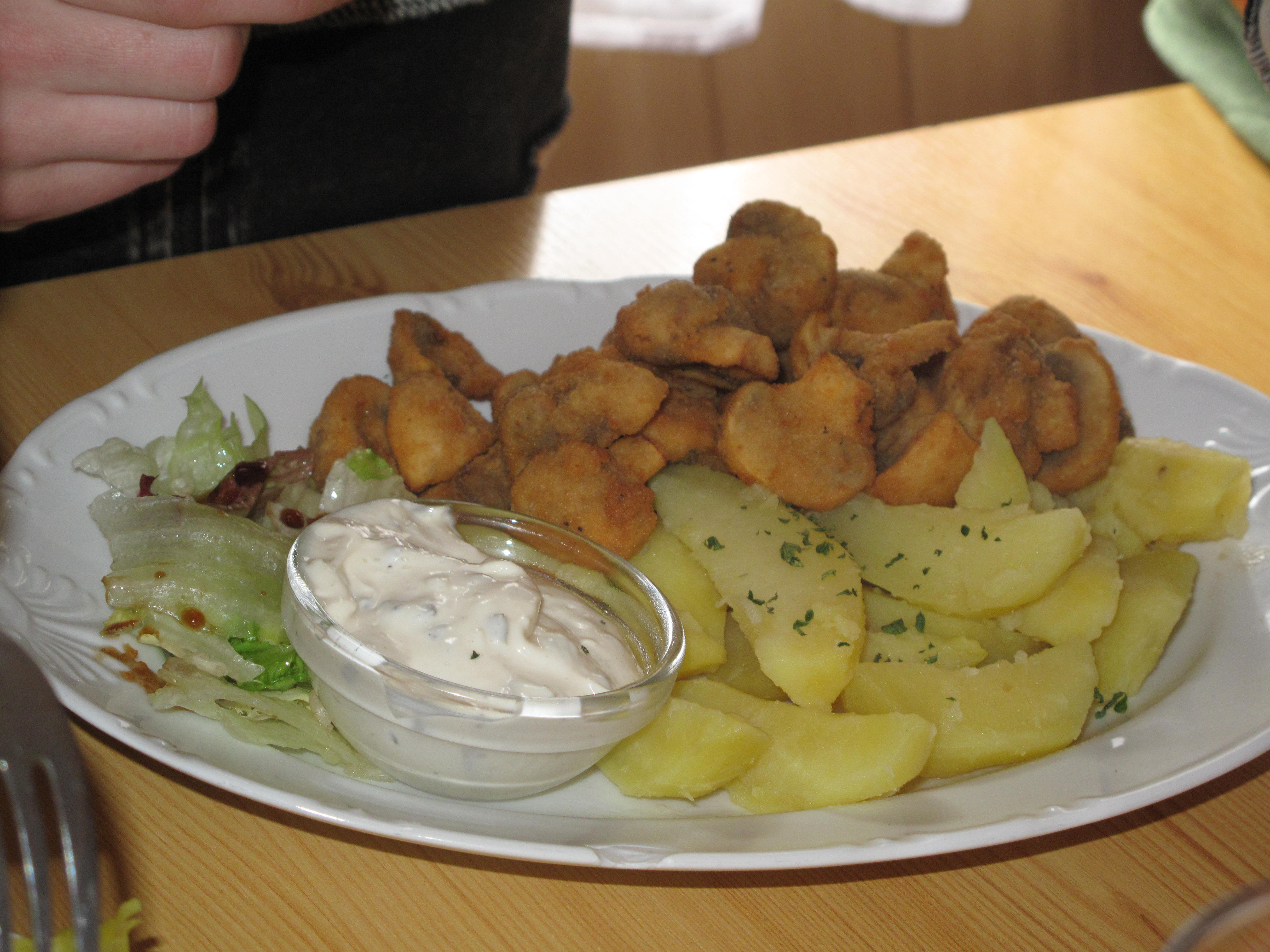 Fried mushrooms, tartar sauce, potatoes.